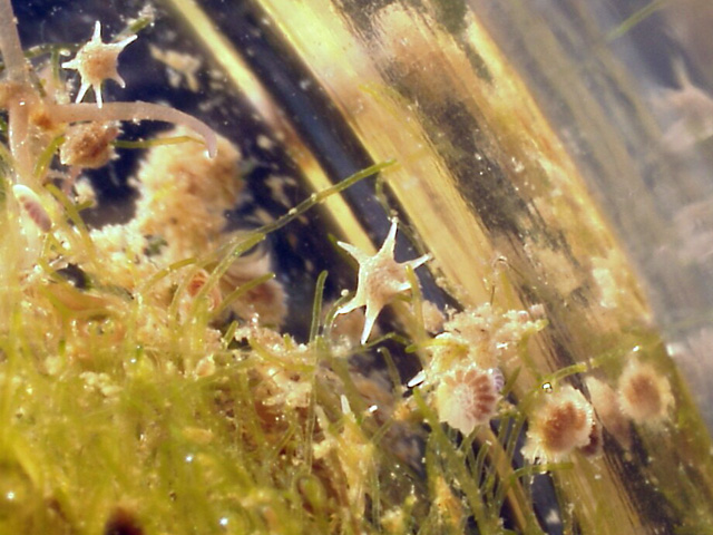 Culture of benthic foraminiferas / from Iriomote Island, Okinawa Pref., Japan / Microscope:KEYENCE VHX Series